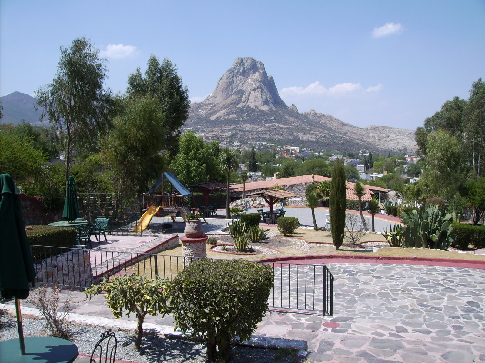 Rock of Bernal, Queretaro, Mexico